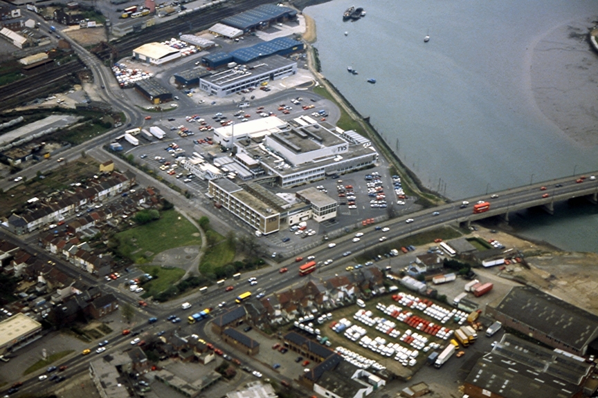 Aerial photograph of Southampton Televison Centre in TVS days. Scanned from a Fujichrome 35mm slide.